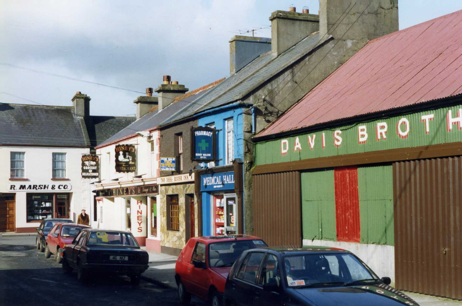 Crossmolina, featuring R.Marsh & Co. Hiney's Grocery Delicatessen and Restaurant, THe Deep River Inn, the Derry Walshe's Medical Hall and the nicely signwritten corrugated iron of Davis Brothers.